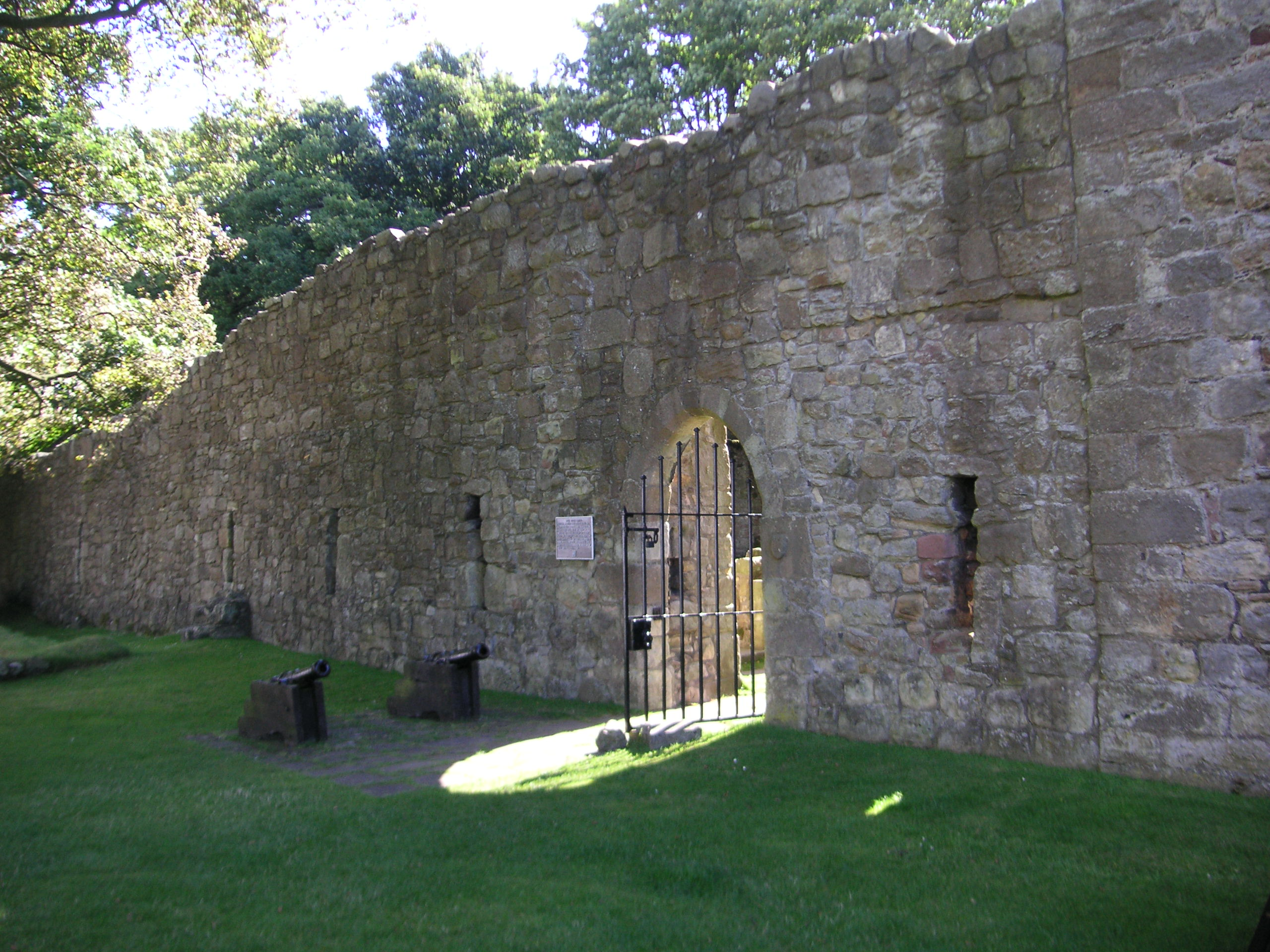 Loch Leven Castle, Perth and Kinross, Scotland. Gateway to Inner Courtyard.